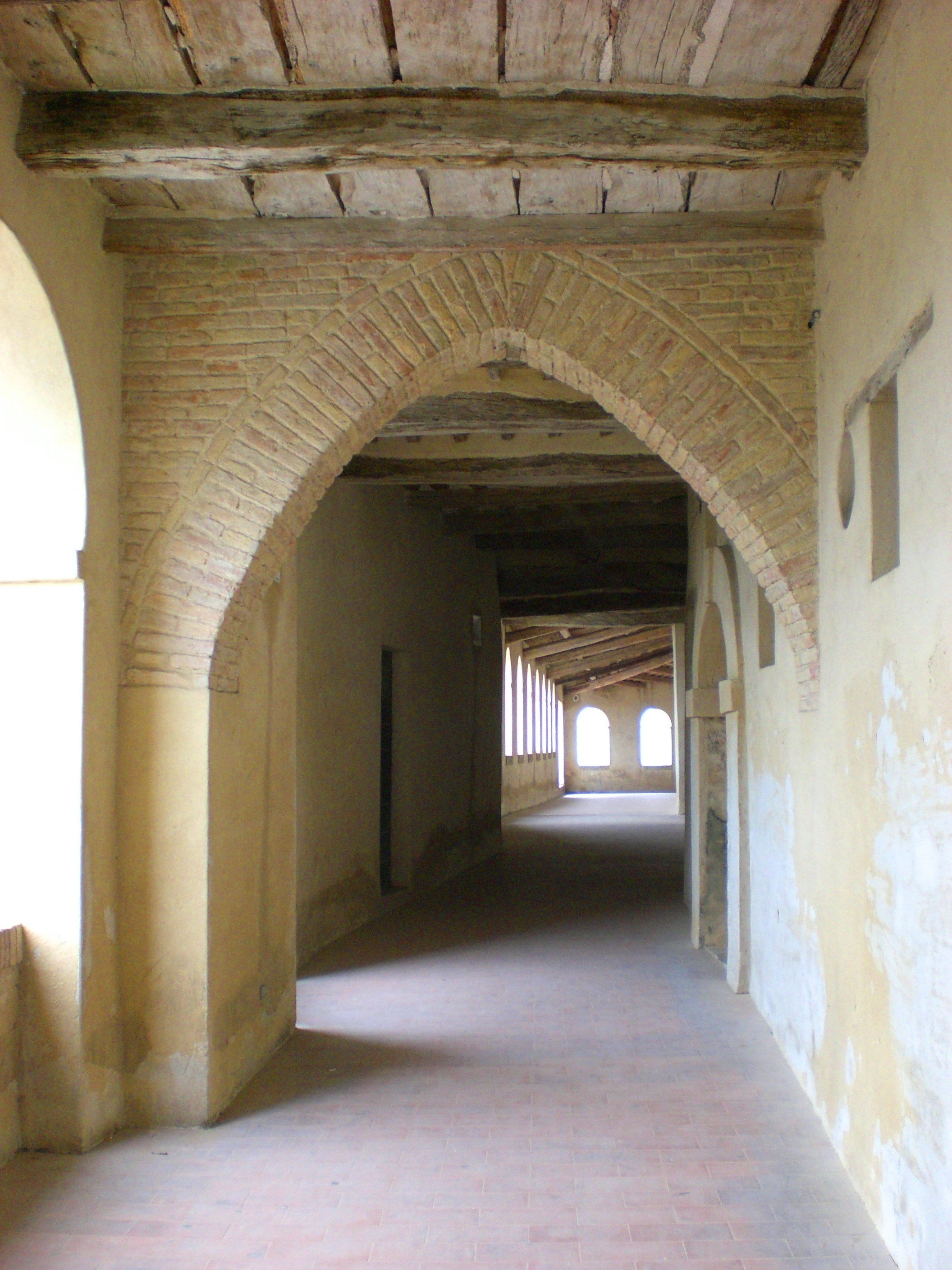 Morro d'Alba, Old Town's Walls